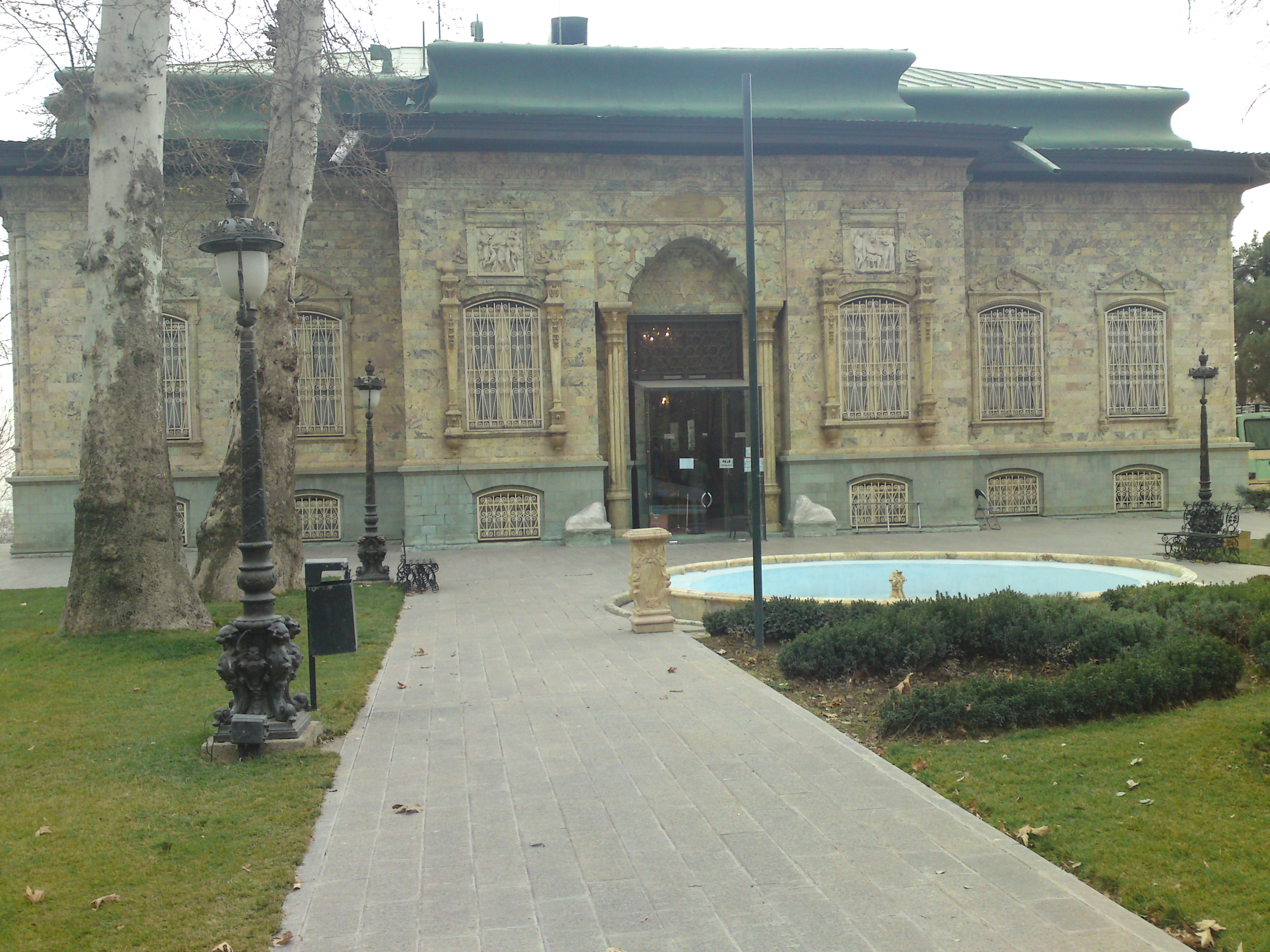 Shahvand Castle (Currently Green Museum)